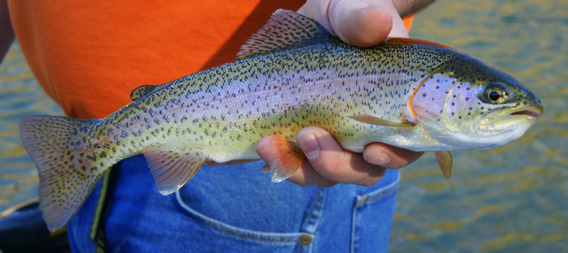 Female Rainbow trout Oncorhynchus mykiss, photo by Mike Anderson